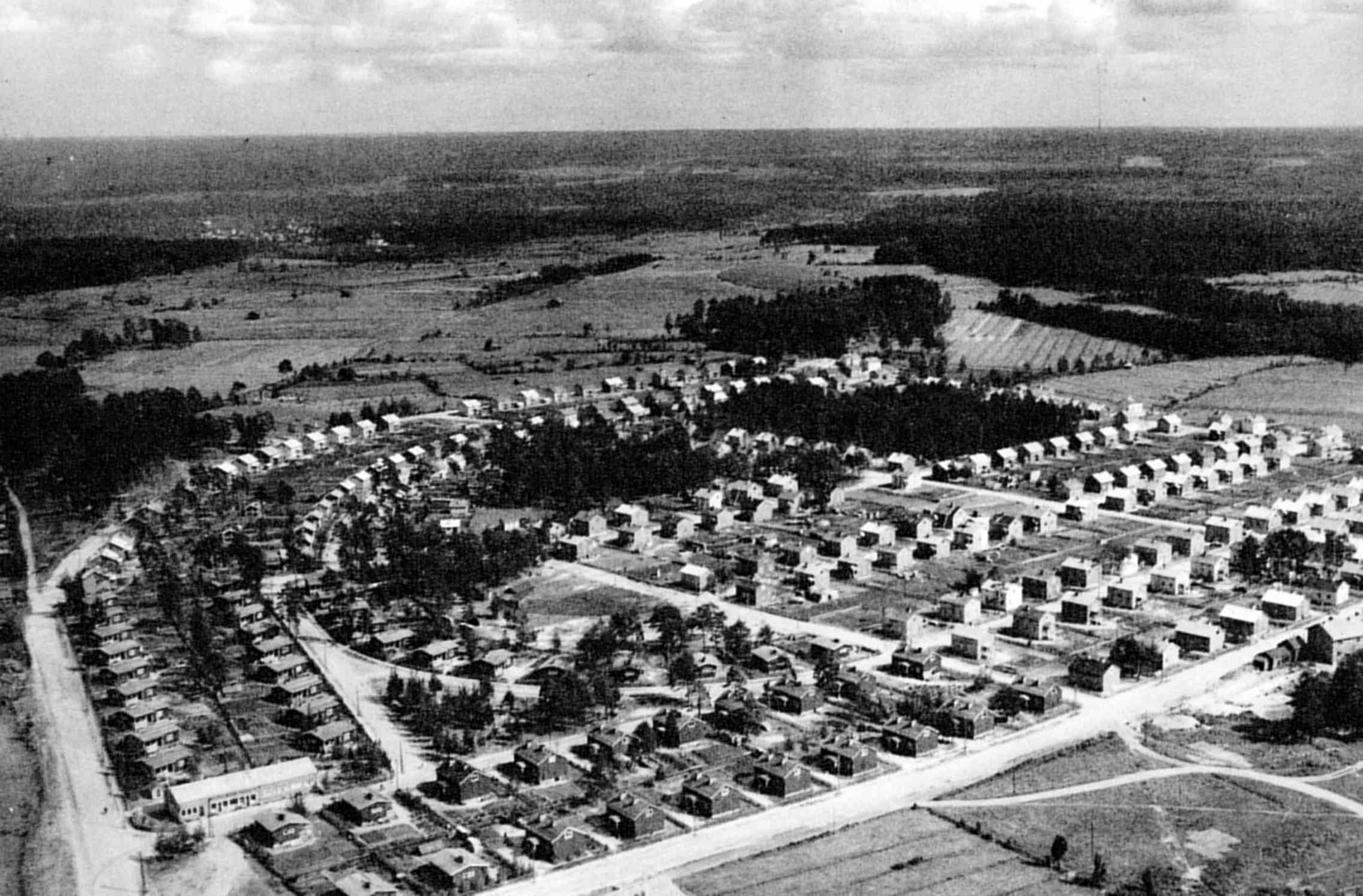 City of Oulu, Finland: Karjasilta 1950